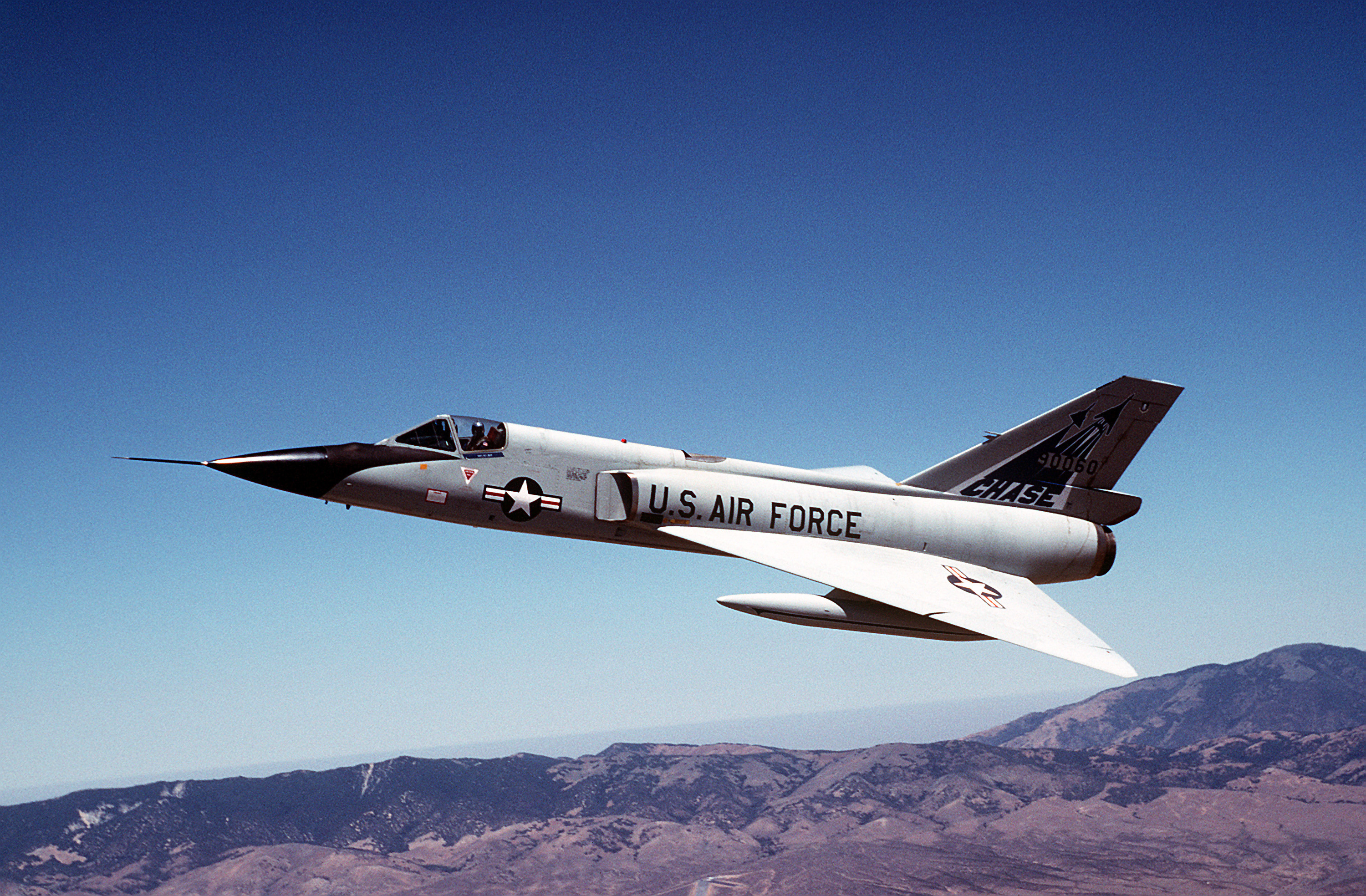 An F-106A Delta Dart aircraft passes over the Mojave Desert while en route to Davis-Monthan Air Force Base, Ariz., where it will be used in the QF-106 drone program. The aircraft, which was the second-to-last F-106 in active service, had been used as a safety chase aircraft in the B-1B aircraft production acceptance flight test program.